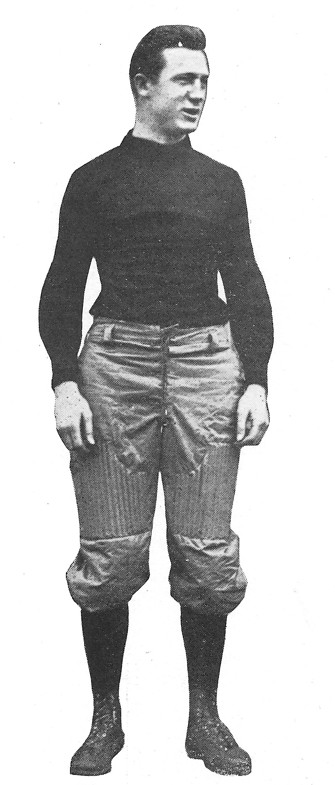 Image is of football coach Bill Hollenback taken September 20, 1910. It comes from a scan I made of page 134 of the 1911 Savitar (University of Missouri Yearbook)